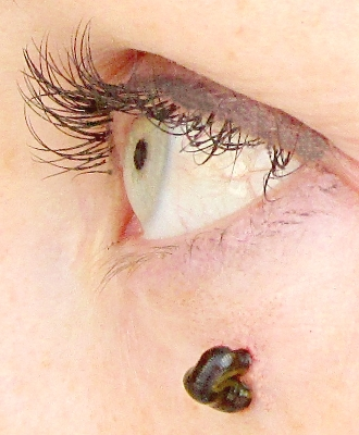 Hyrudotherapy in coametology